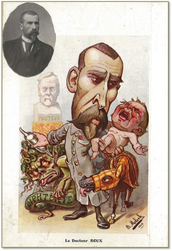 Caricature of members of the Academy of Medicine (Paris) designed by Hector Moloch (signing B. Moloch) and published in the journal "Chanteclair". Each cartoon is added a doctor's photography.